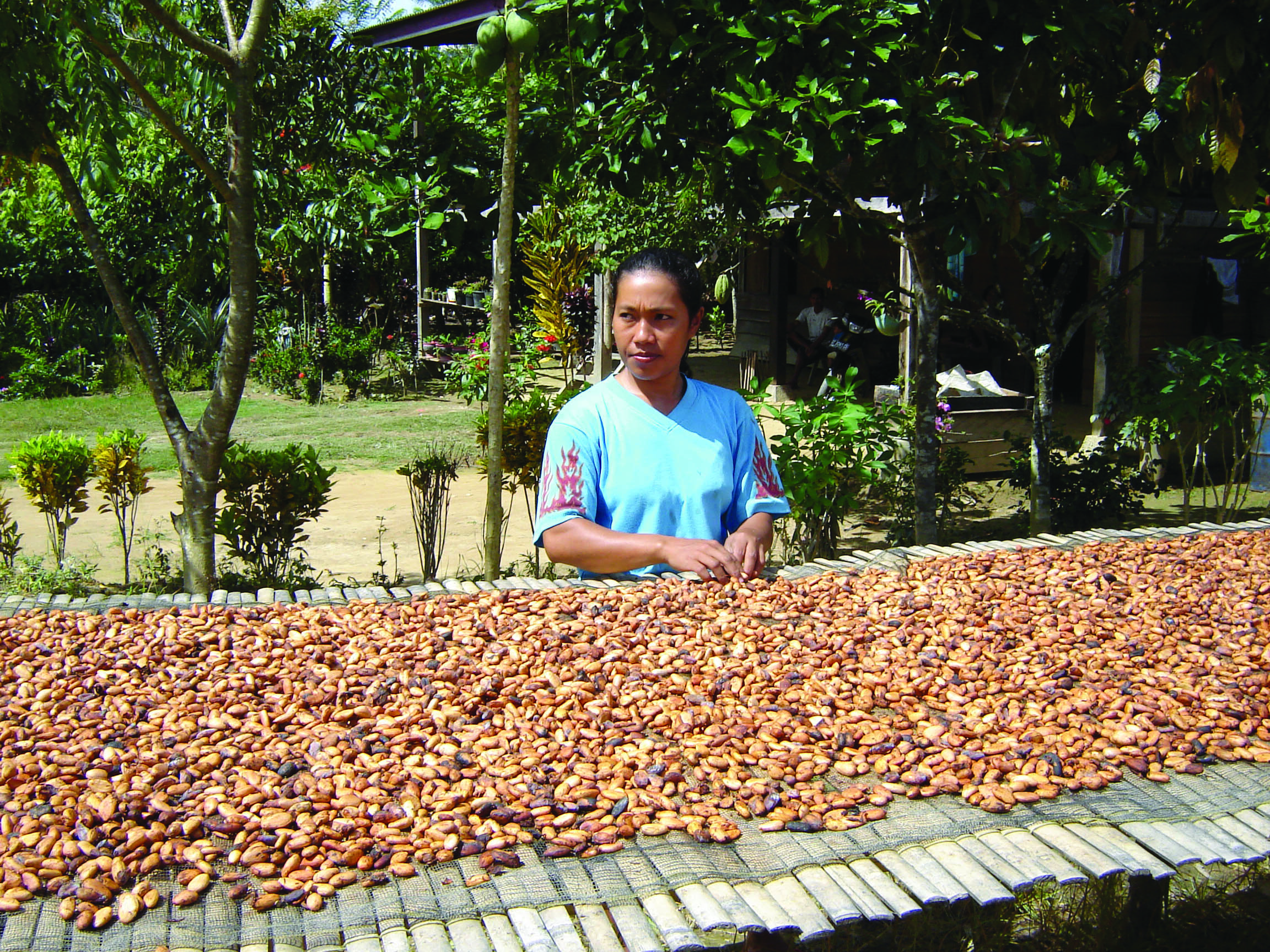 Australia helps improve agriculture productivity in eastern Indonesia and increase access to markets for products such as peanuts, cashews (pictured), beef and specialty coffee. Indonesia 2007.